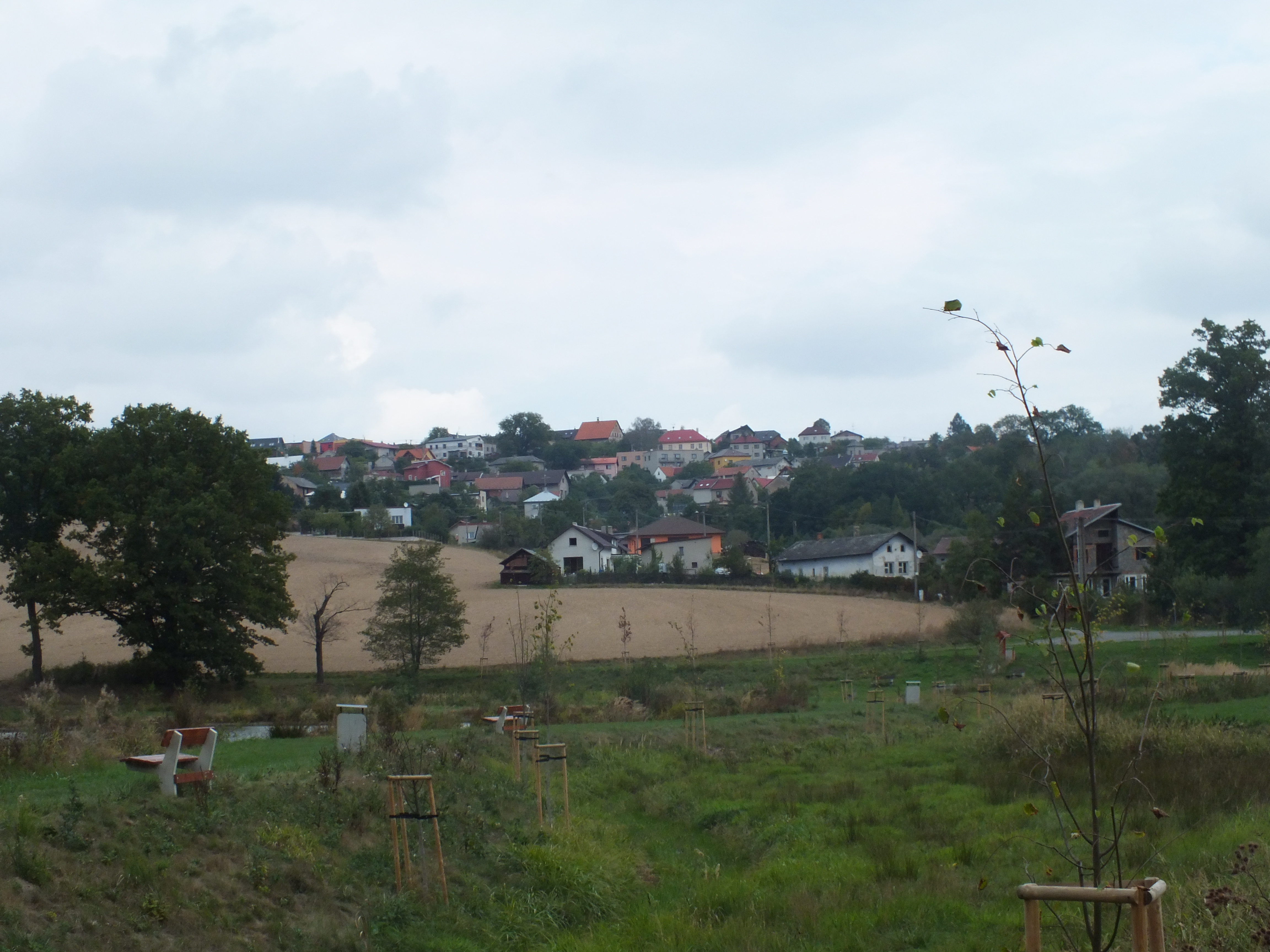 The southern view of Zbyslavice, from the valley of Sezina